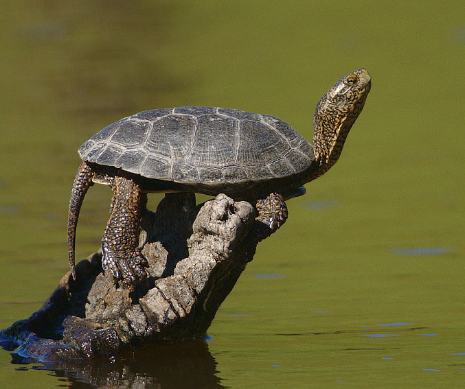 Western pond turtle from California